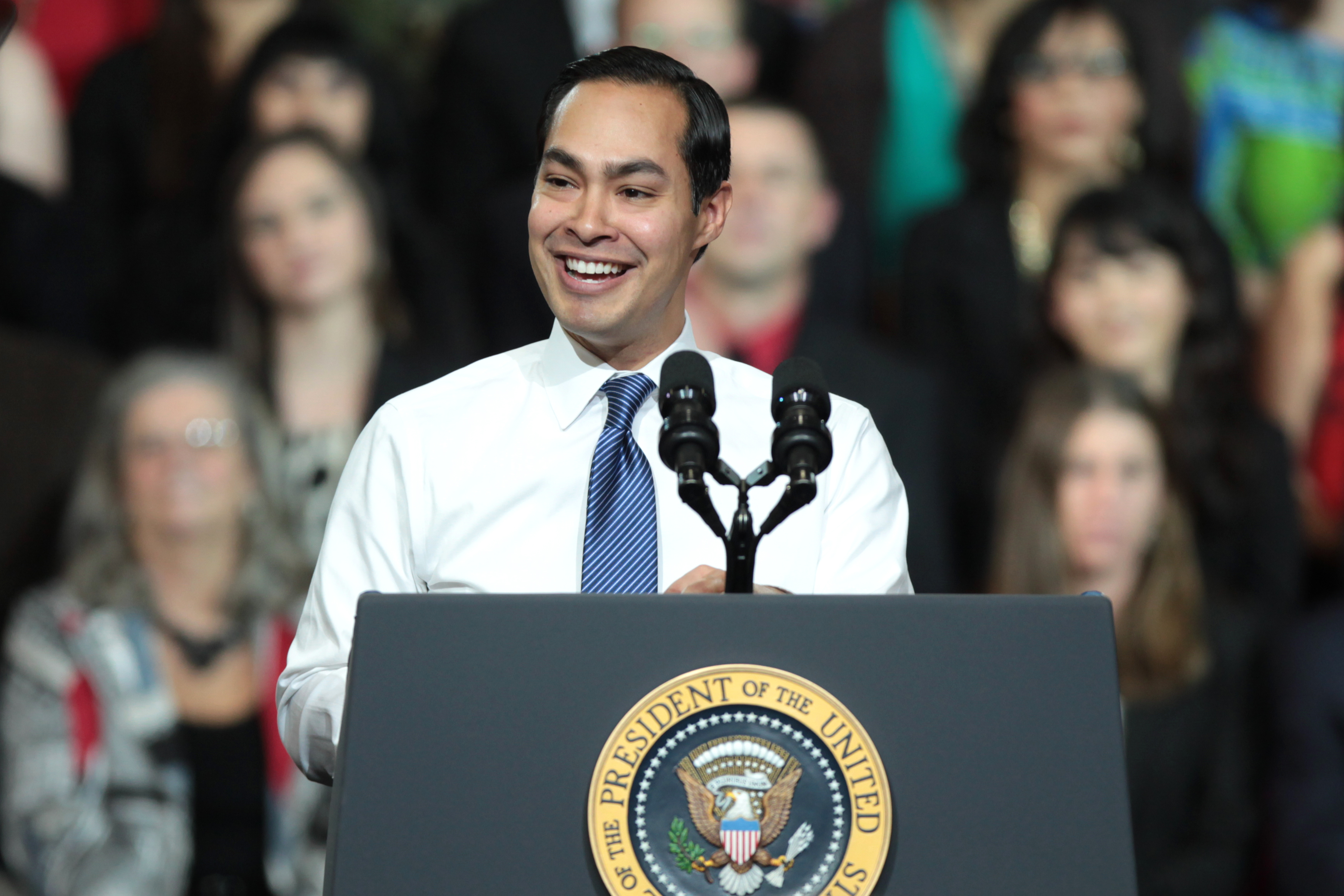 Secretary of Housing and Urban Development Julian Castro speaking at an event with President Barack Obama in Phoenix, Arizona.